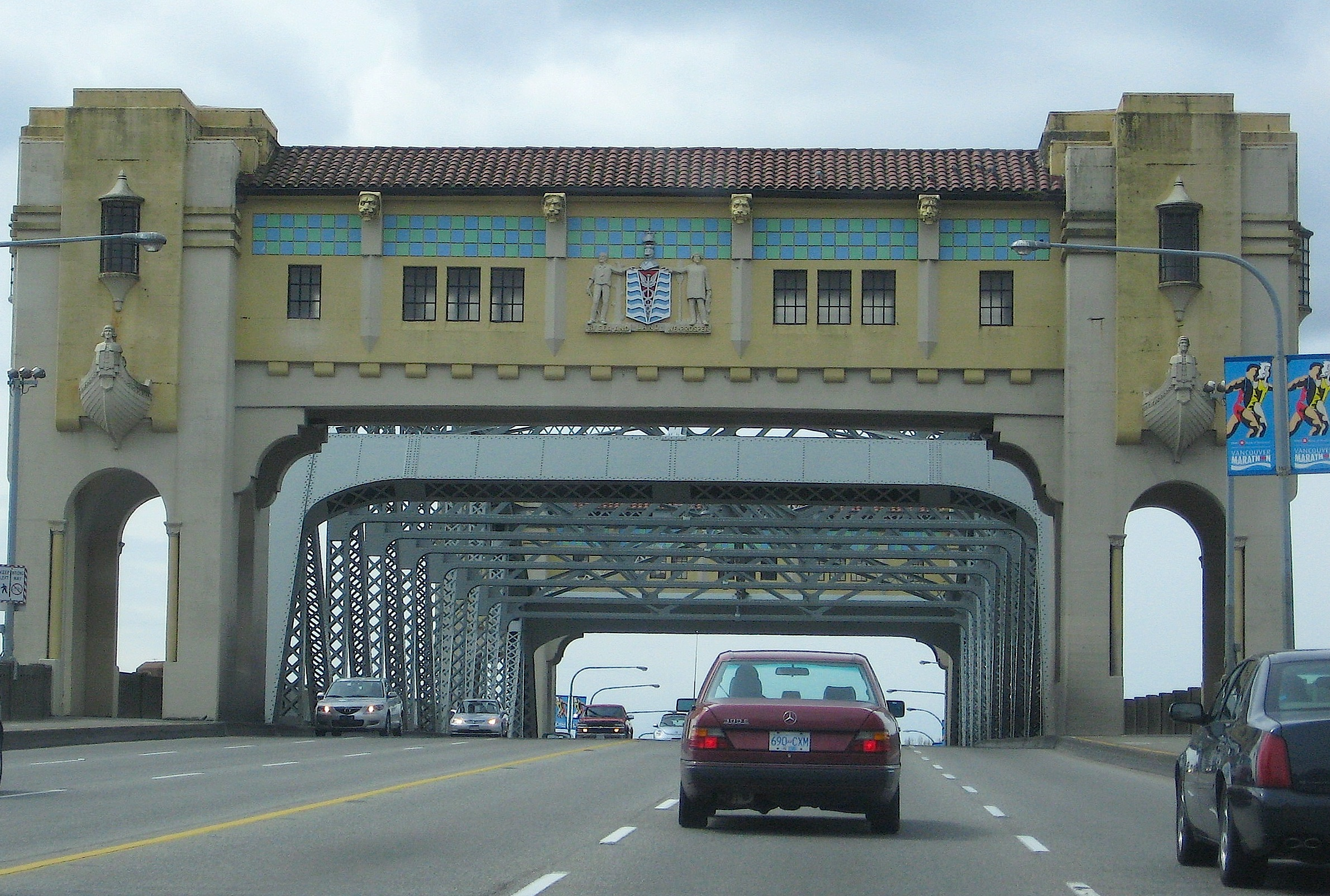 View of Burrard Street Bridge, Vancouver, Canada, northeast traffic approach, illustrating descriptions and issues in article.